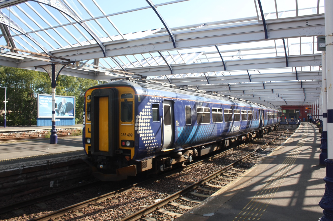 Abellio ScotRail's 156499 stands in a bay platform at Kilmarncok with a service to Glasgow Central.